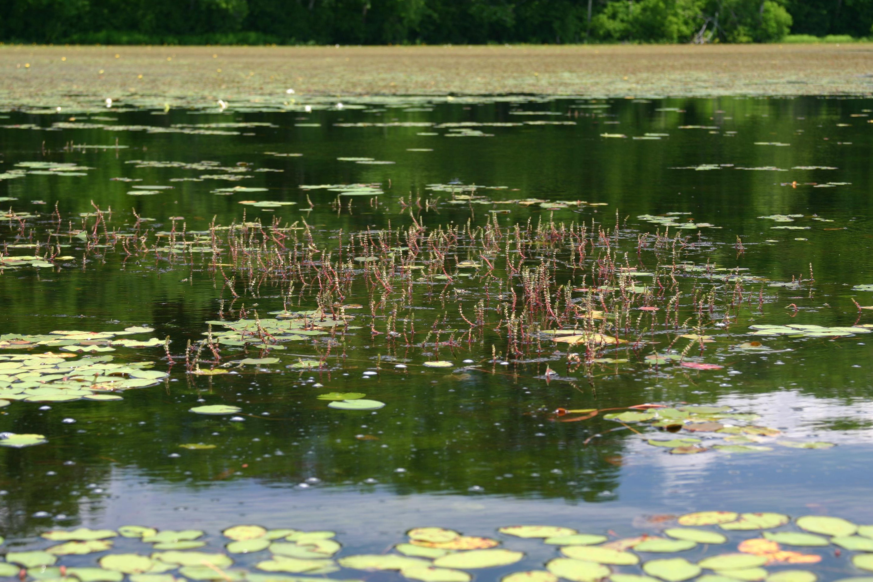 twoleaf watermilfoil - Myriophyllum heterophyllum Michx.